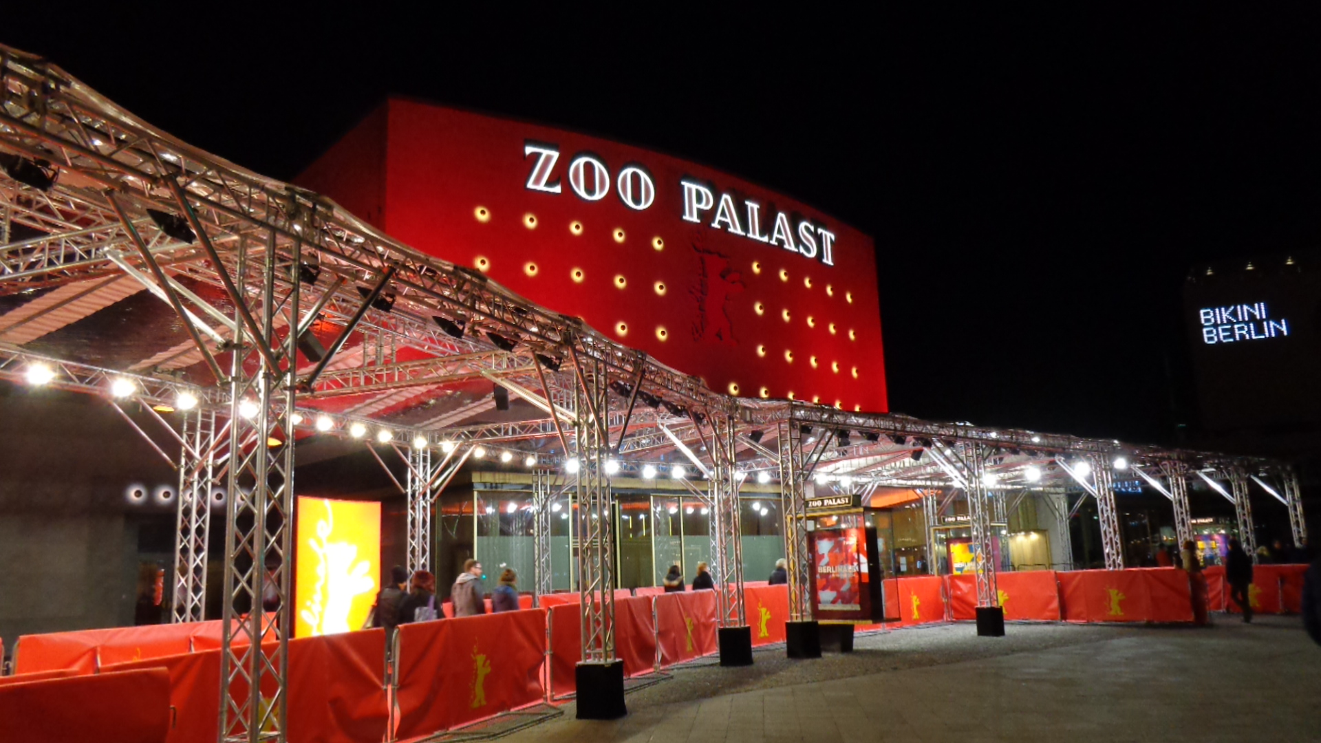 Berlin, Zoo-Palast, Berlinale 2014